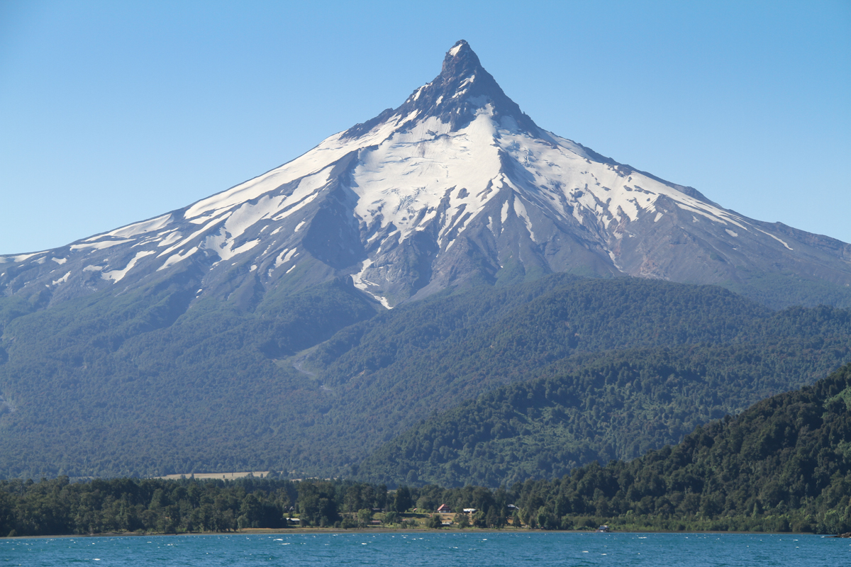 Puntiagundo volcano seen from Todos los Santos Lake, Chile.